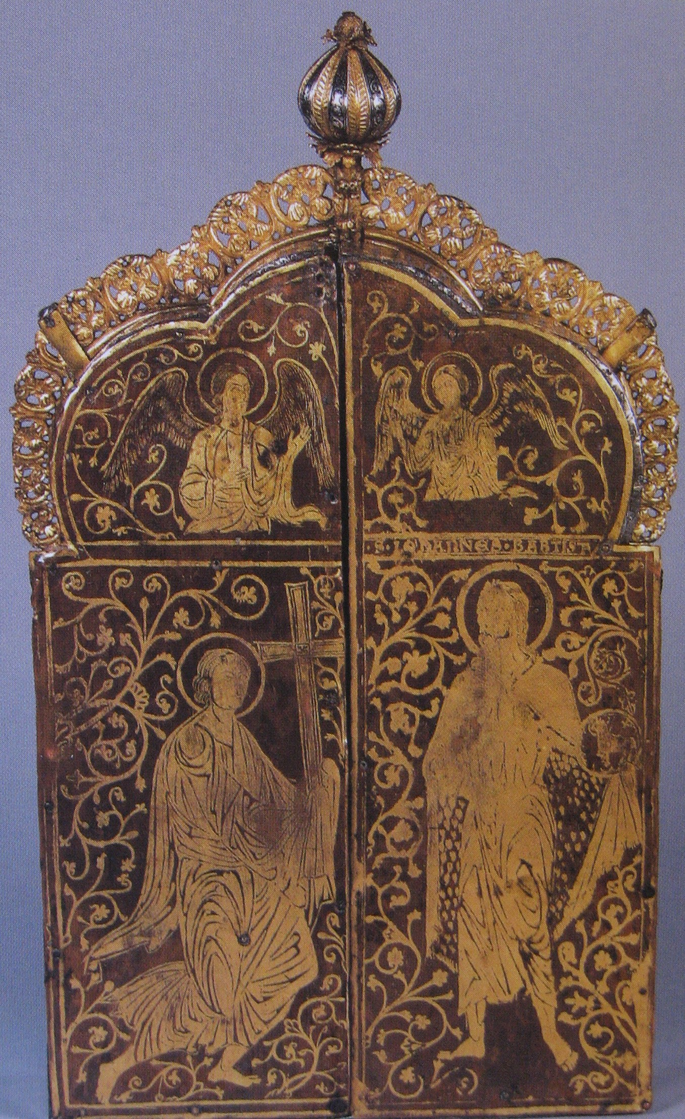 triptyque of the abbey of Florennes; Mosan art; gilded silver, enamels, niello, email brun; height 51 cm, width (opened) 57 cm. Royal Museums of art and history, Brussels